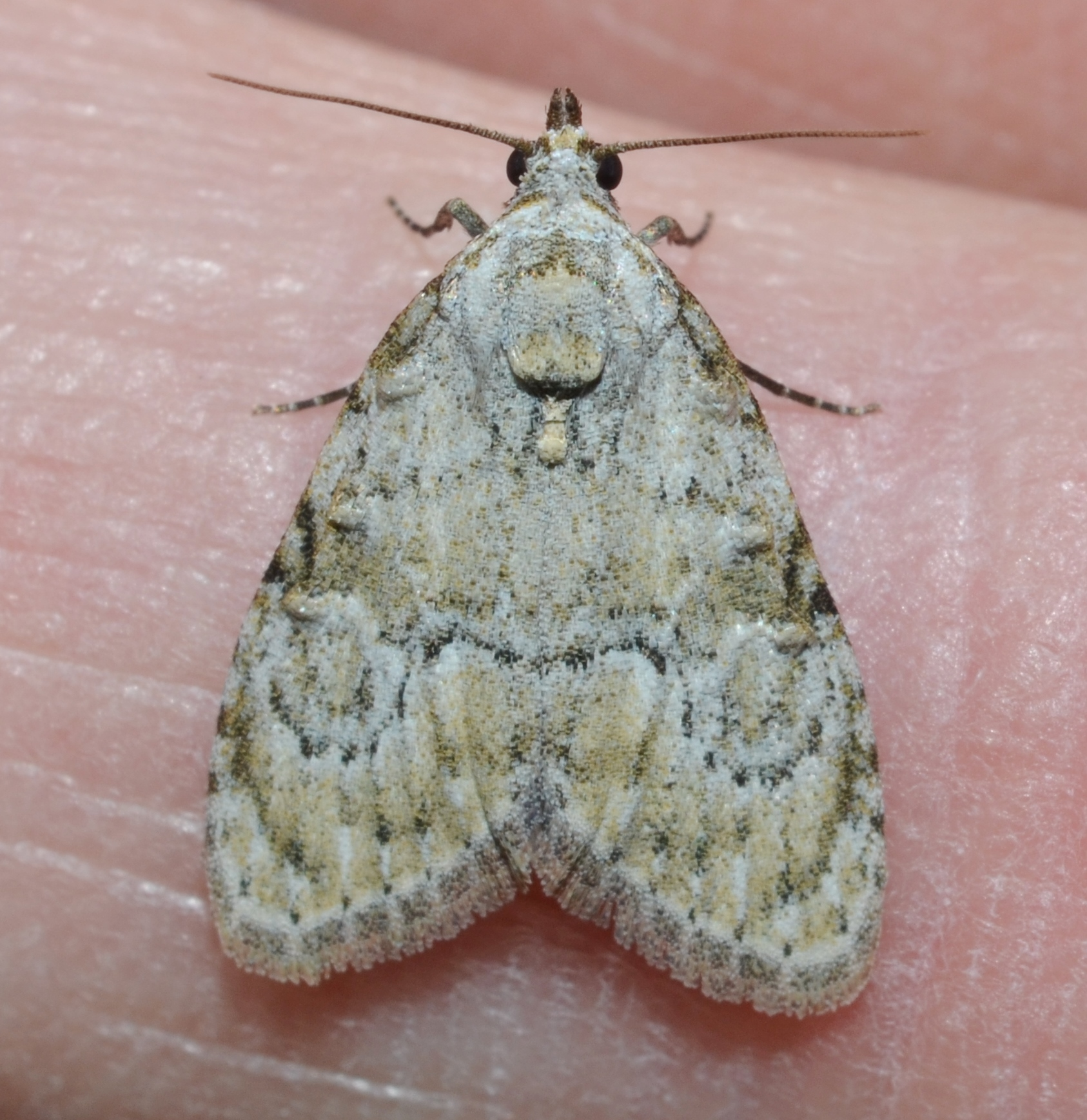 Cuivre River State Park 4/17/15